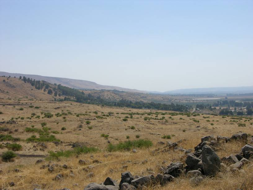 View of Kfar Szold from top of Givat HaEm, Upper Galilee, Israel